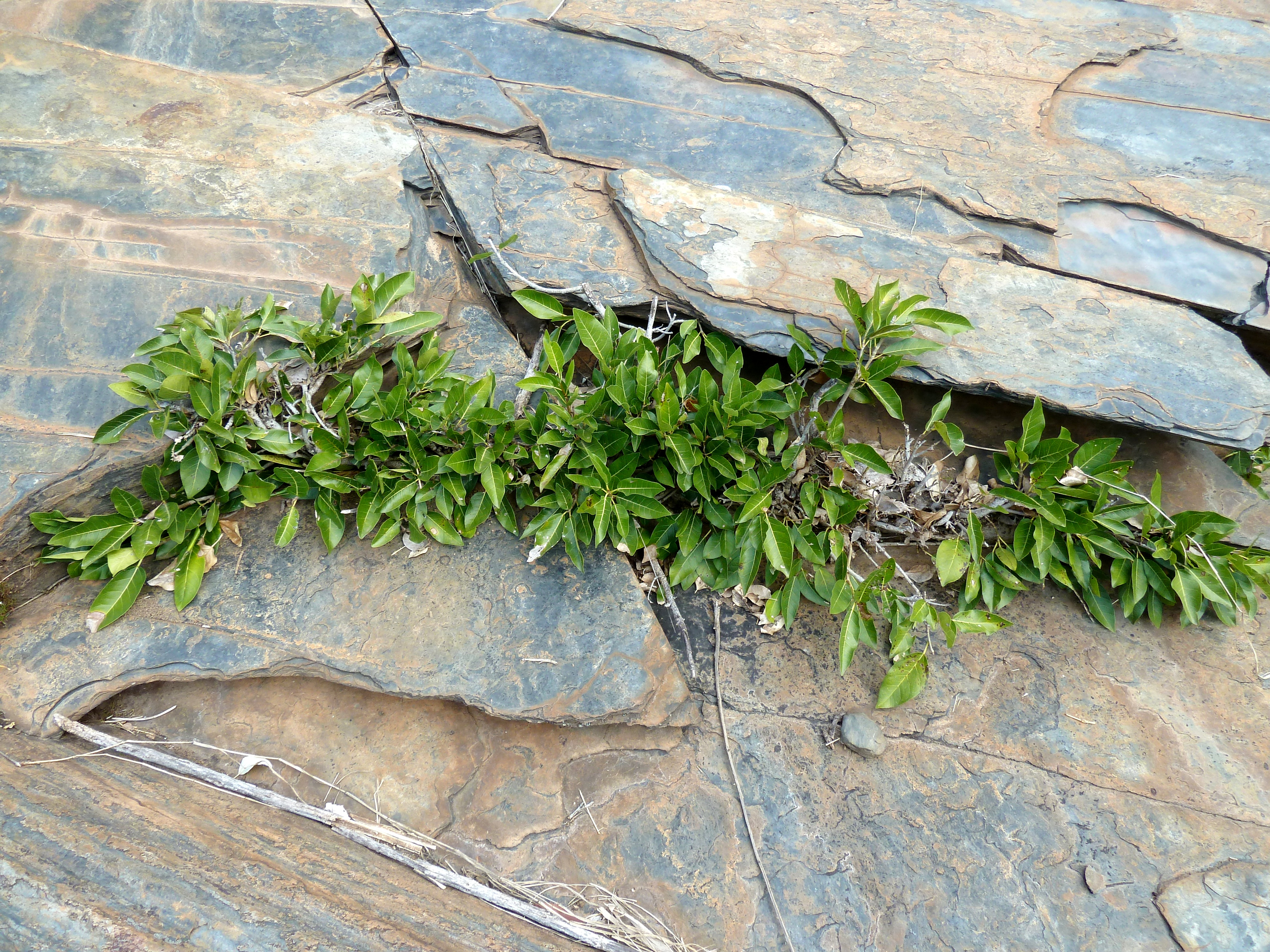 Habit of a Red-leaved fig growing from slate fissure at Phalandingwe, Pelindaba